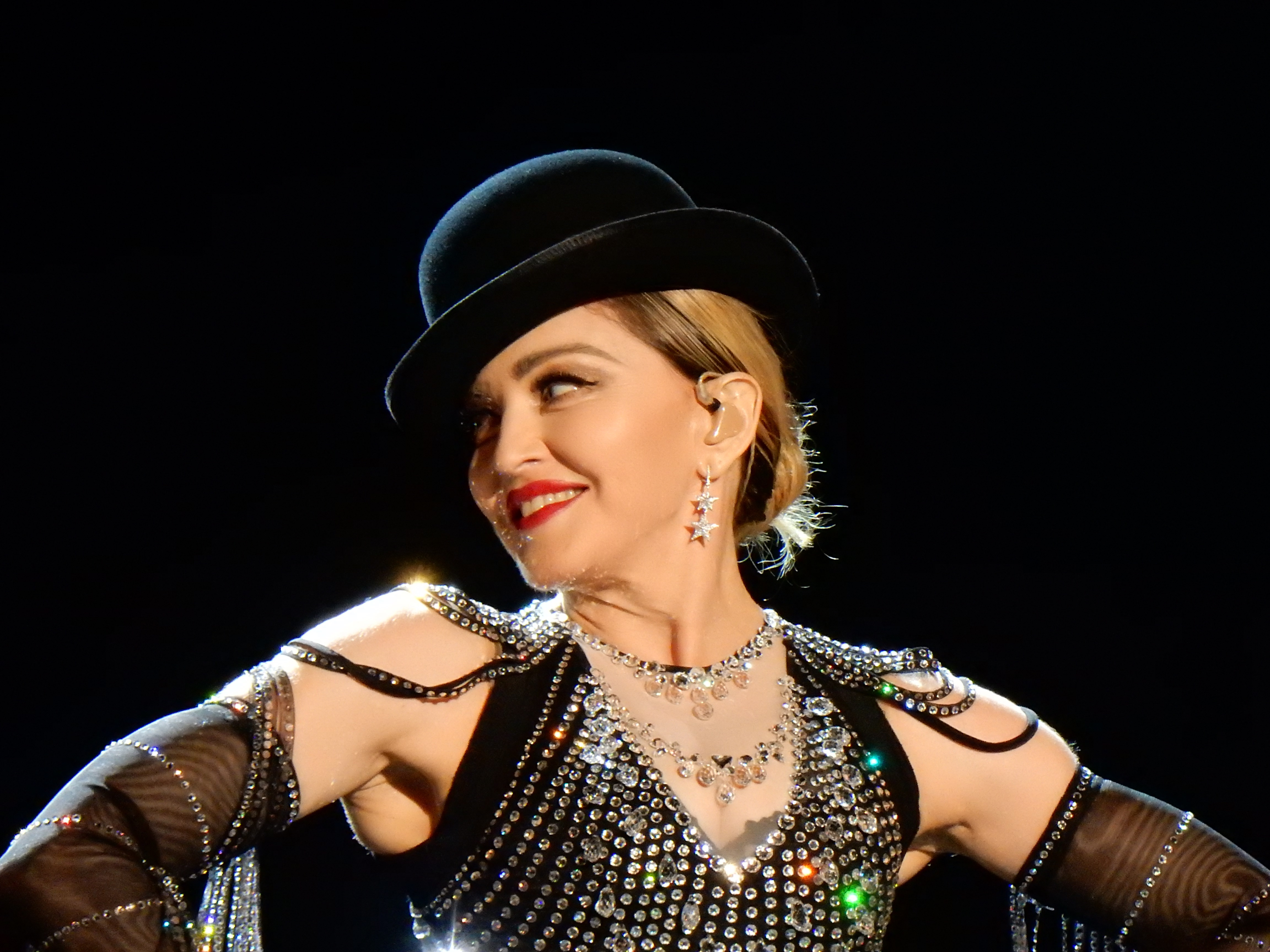 Rebel Heart Tour 2016 - Sydney 1